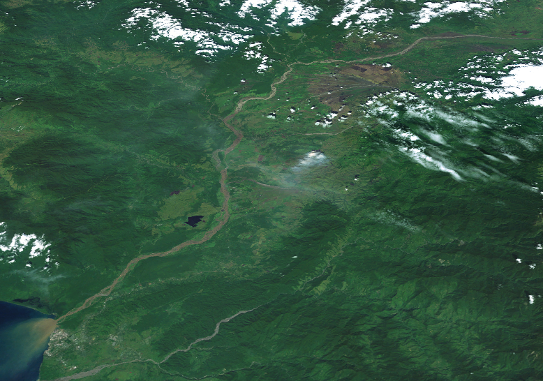 World Wind image of the Markham River and Lae looking due West